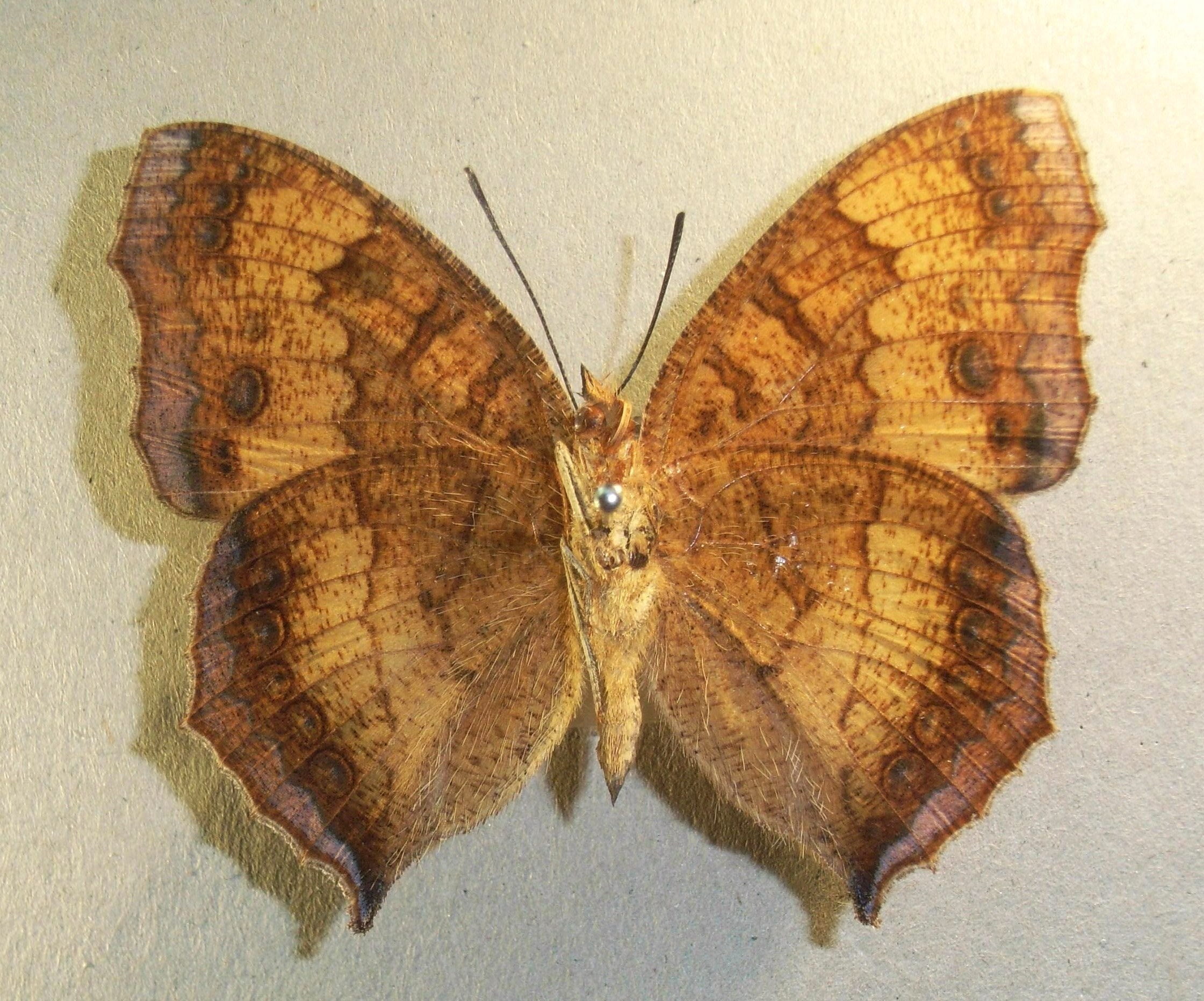 Catacroptera cloanthe natalica Underside:Nymphalinae:Nymphalidae